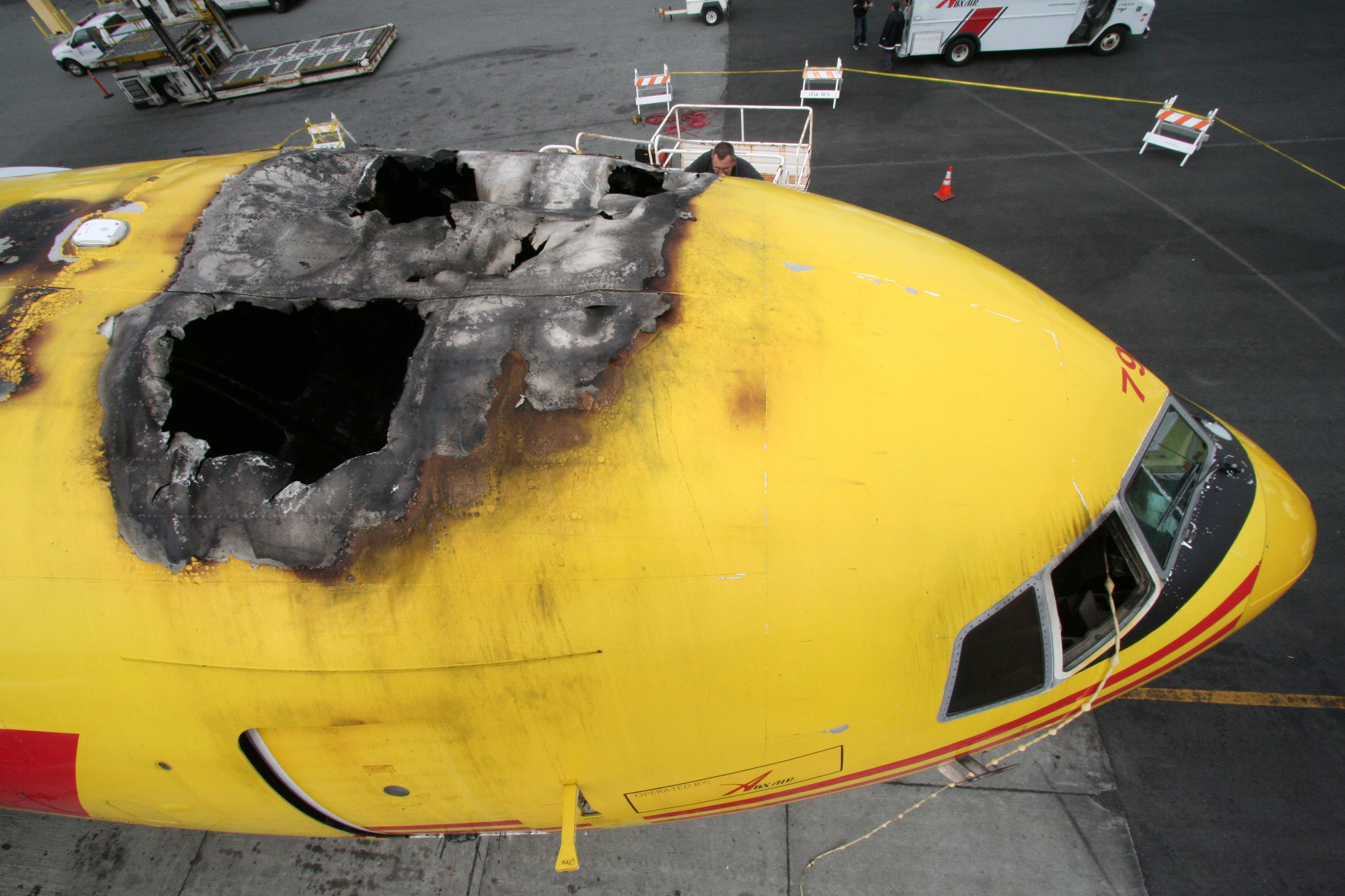 Damage caused to an ABX Air Boeing 767 at San Francisco International by a fire